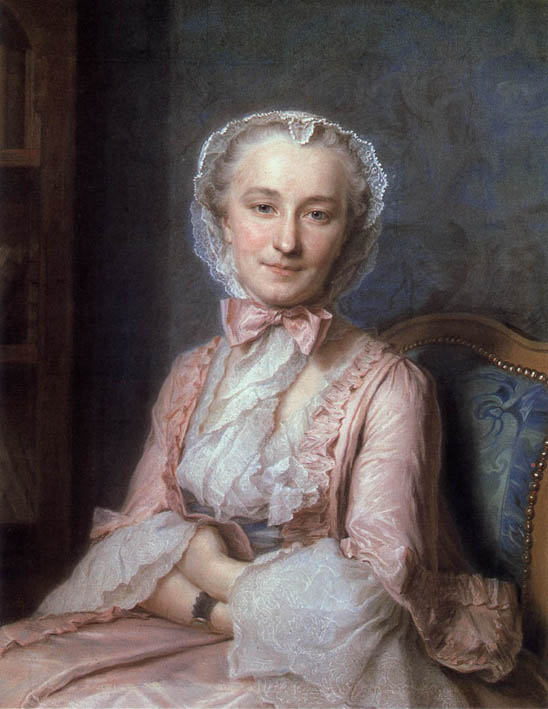 Marie Sallé (1707–1756), French dancer